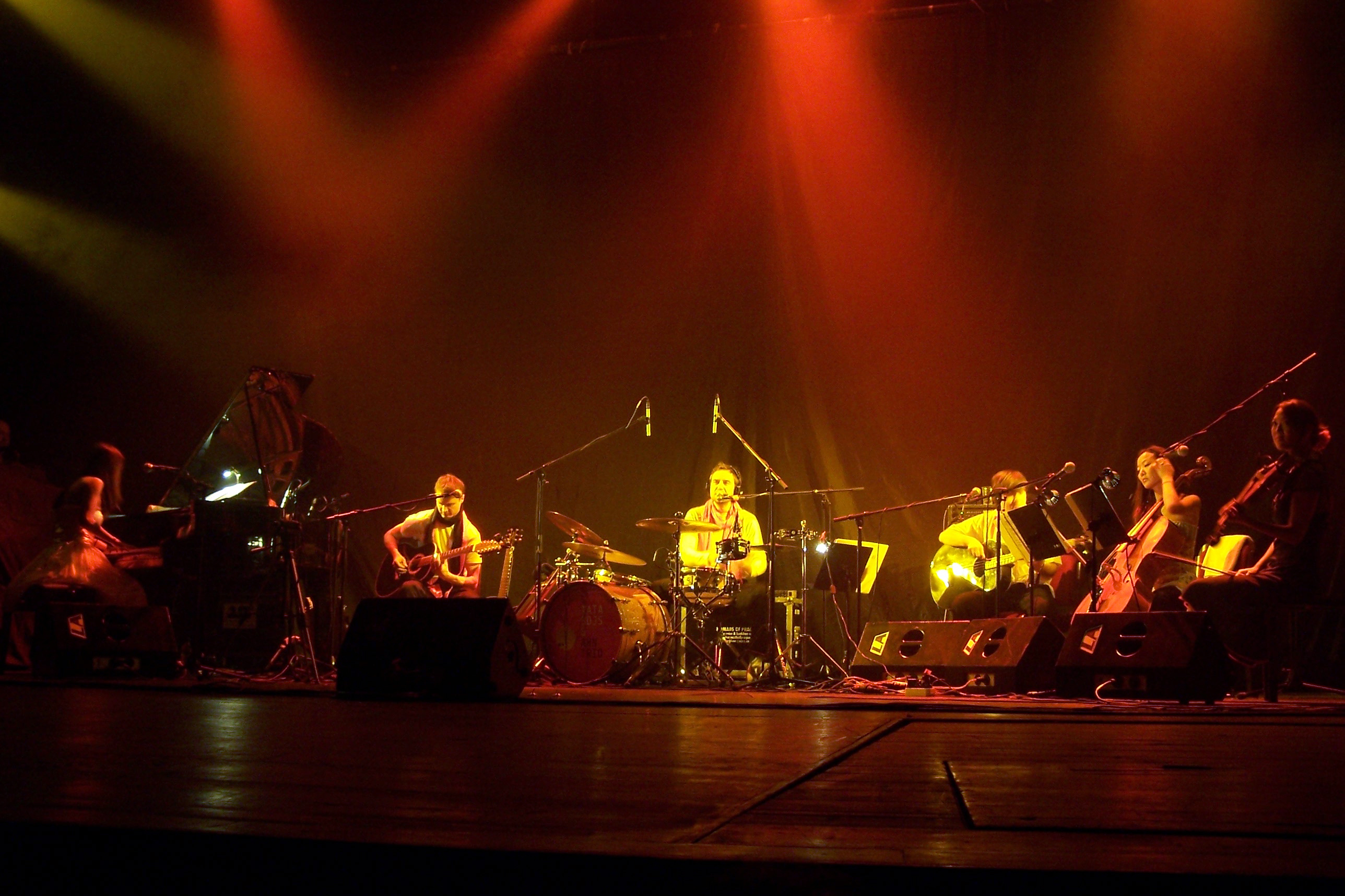 Tata Bojs & Ahn Trio: First concert of the Smetana reTour 09.